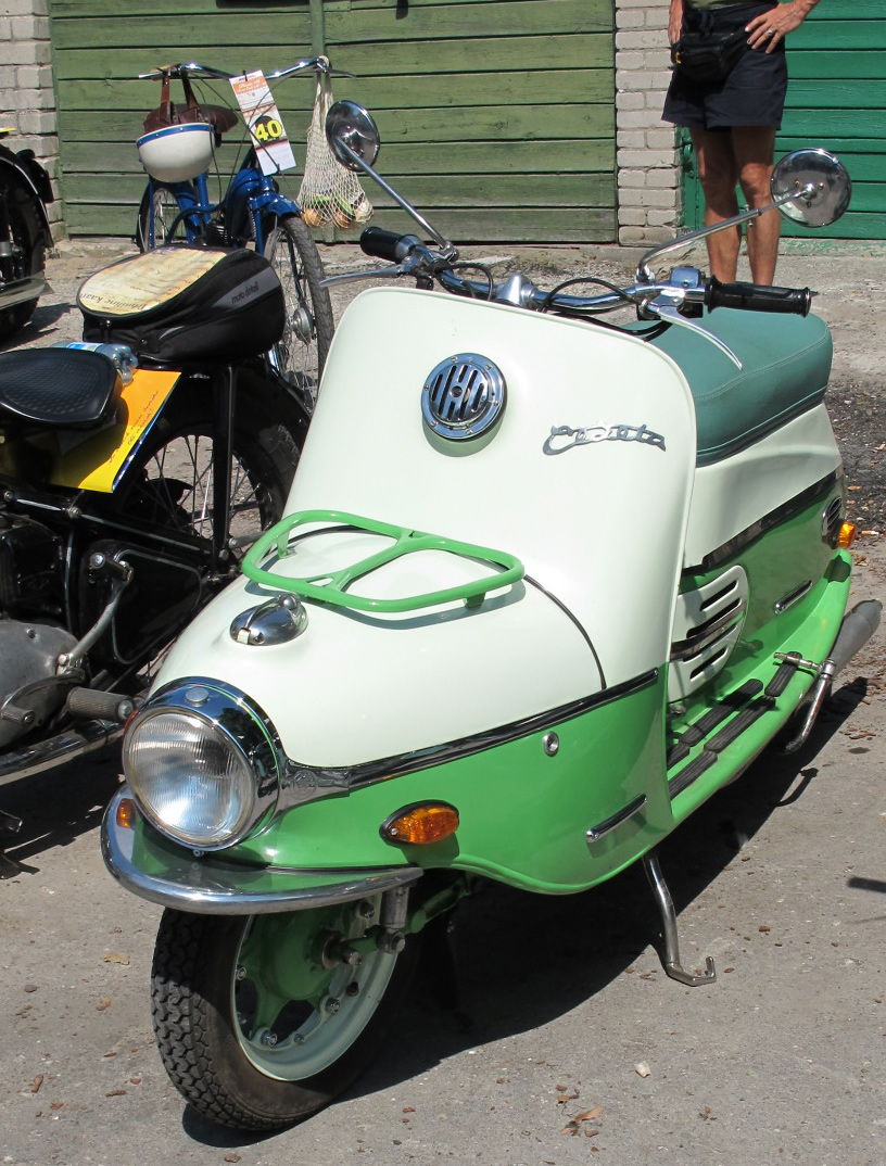 Čezeta motoroller in Pärnu